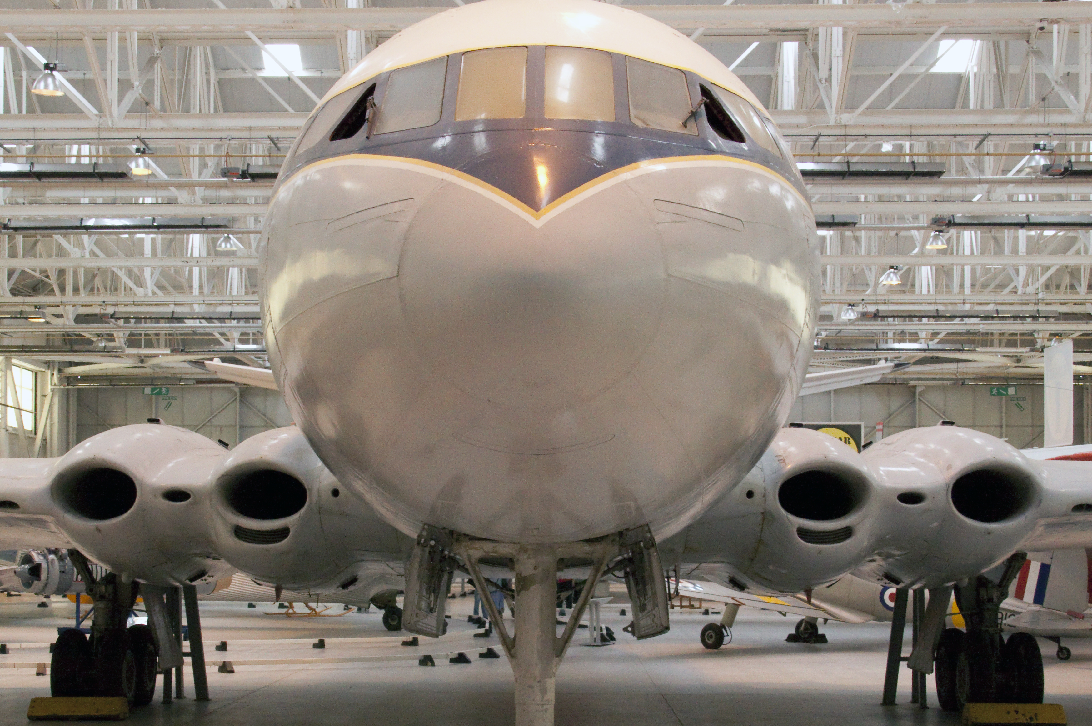 Front view of a De Havilland Comet.